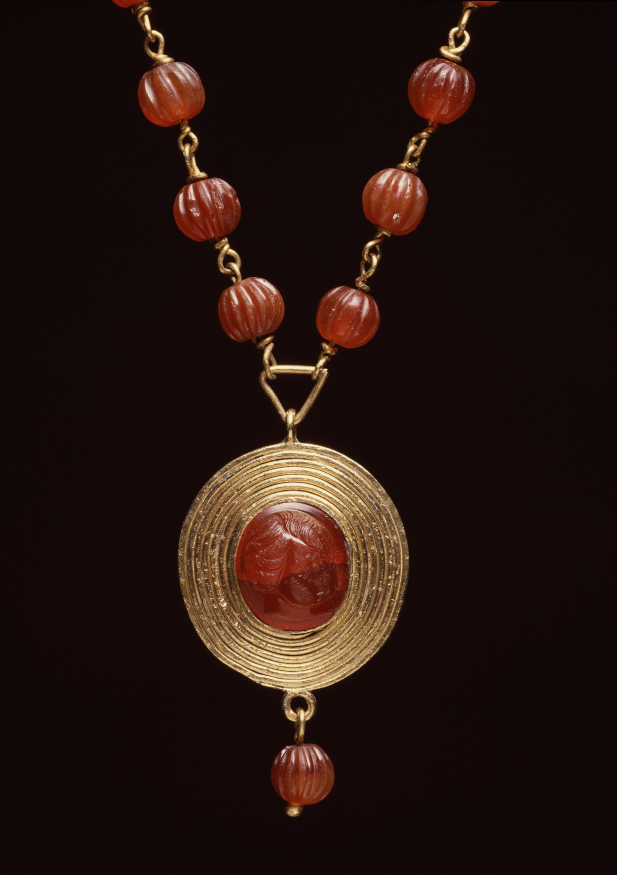 This necklace is a pastiche. The carnelian beads are ancient and strung on modern gold links. The lion-head finials comprising the hook and eye clasp are reused from Greek earrings. The child's head boldly carved in a carnelian stone is set in a gold setting, which may or may not be ancient.